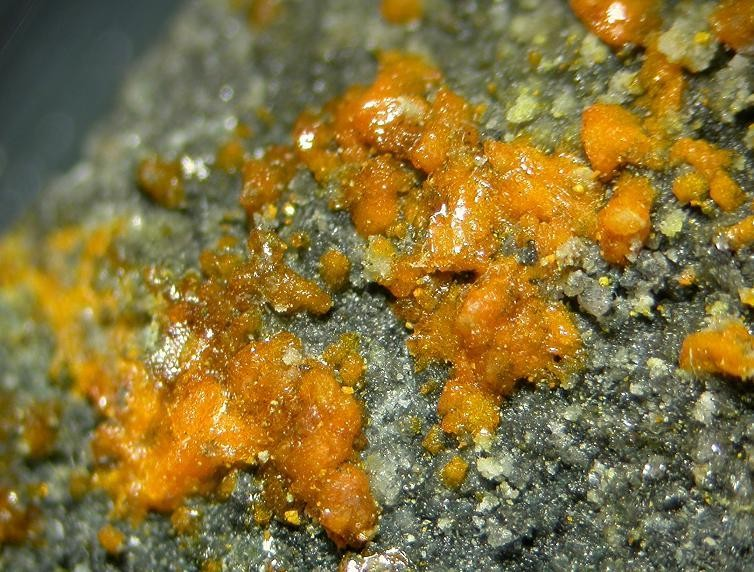 Lasalite Locality: Vanadium Queen Mine, La Sal Creek Canyon, Paradox Valley District, Paradox Valley, San Juan Co., Utah, USA Bright orange crystalline crust of Lasalite. This nice specimen was acquired from Tom Loomis and was tested by Bob Jenkins at the University of Arizona using Raman spectroscopy. This specimen contains no Pascoite. Field of view 9 mm. Specimen and photo Leon Hupperichs.